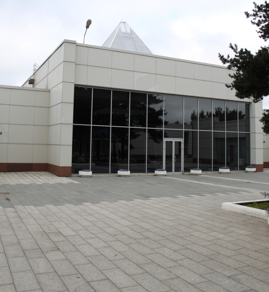 crematorium of St.Petersburg